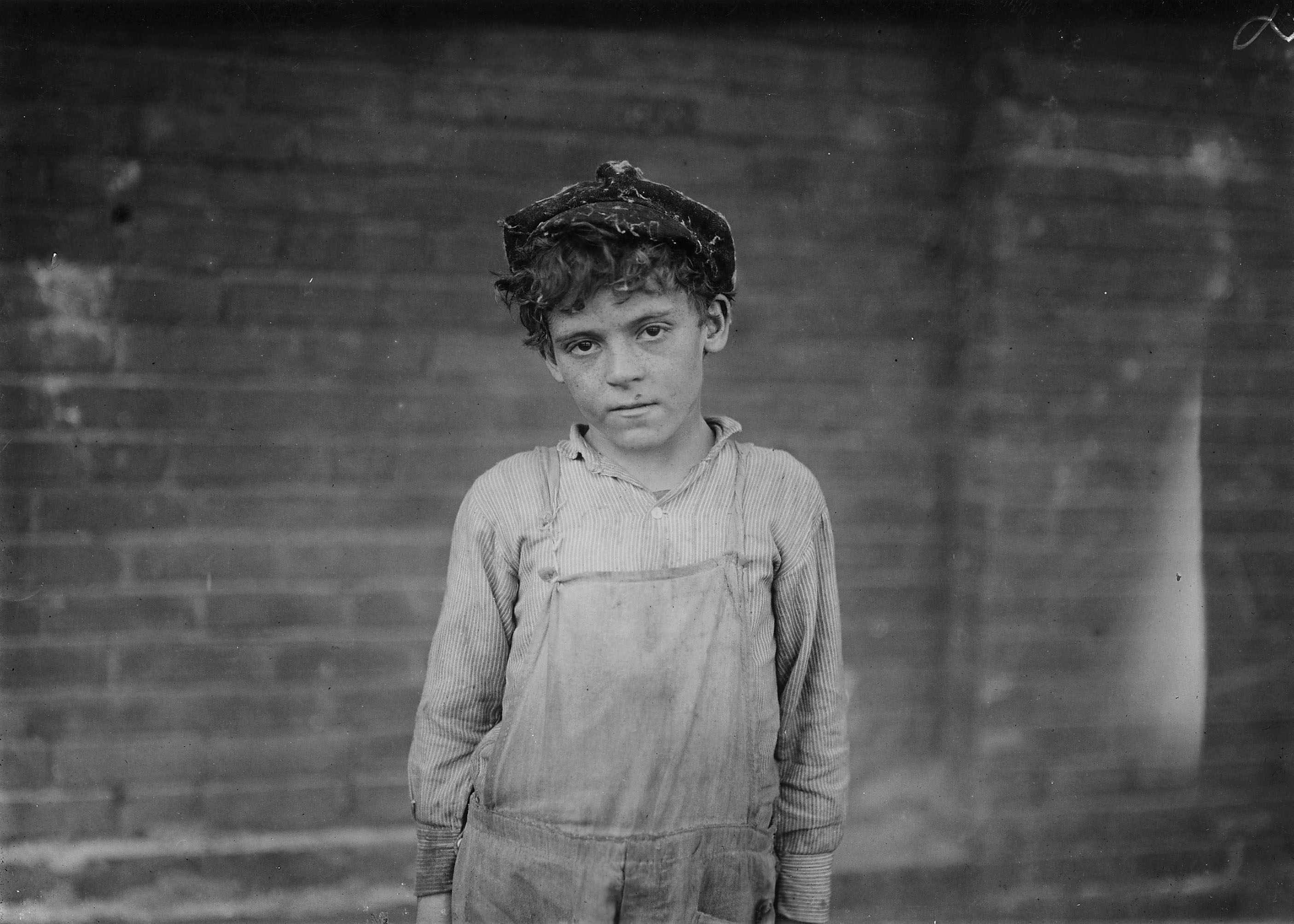 Cropped version of media:One of the young doffers working in Pell City Cotton Mill. Supt. of Mill is also Mayor of Pell City. Pell City, Ala. - NARA - 523356.jpg